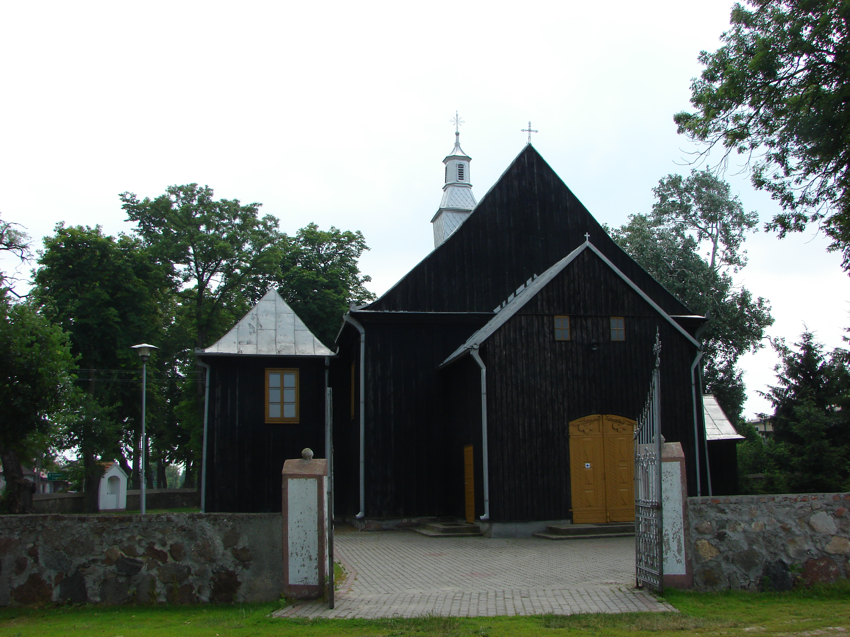 Umień, Gmina Olszówka. Church of St Michael, built XVIII century.